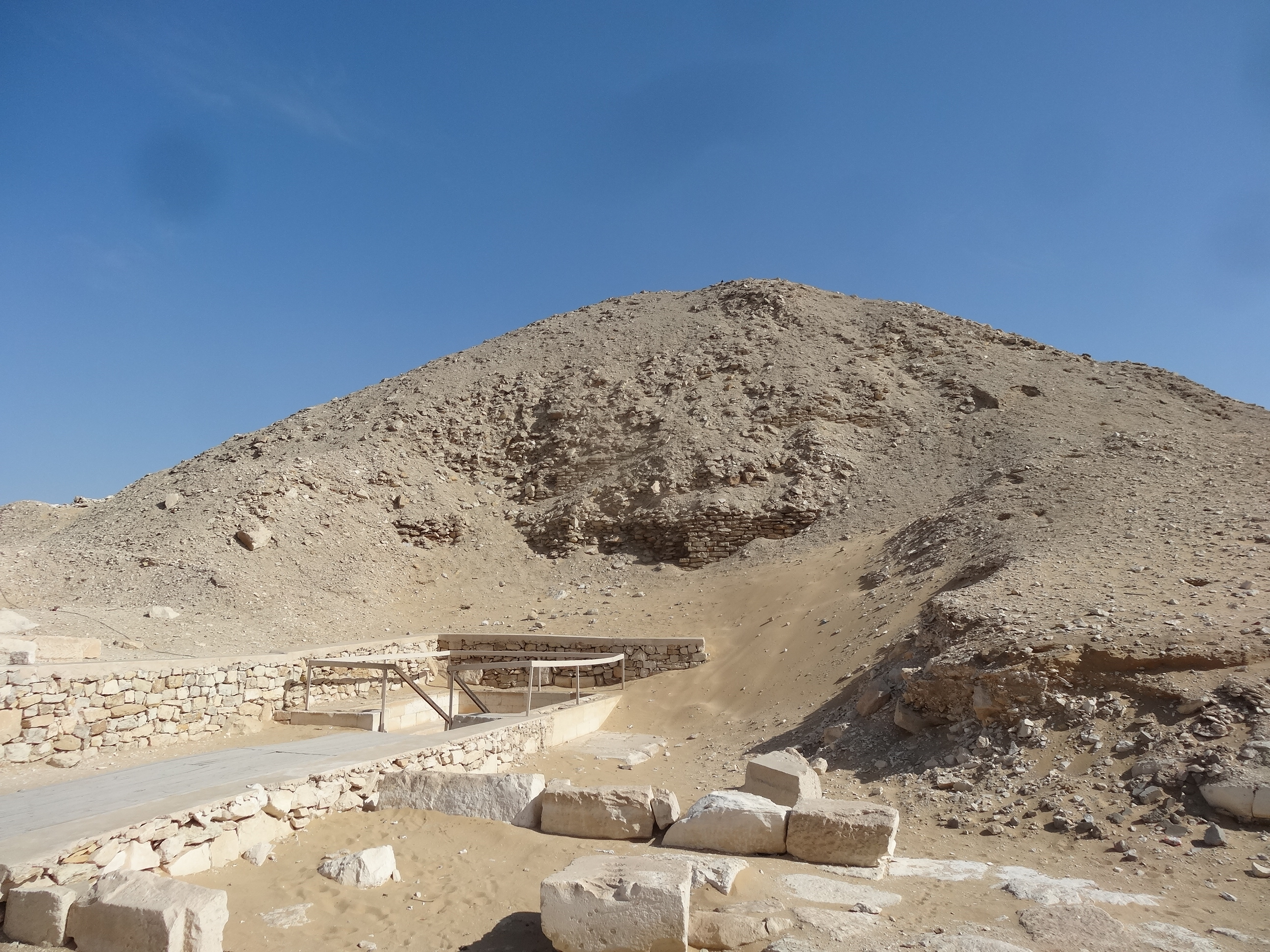 Saqarah, Al Badrashin, Giza Governorate, Egypt